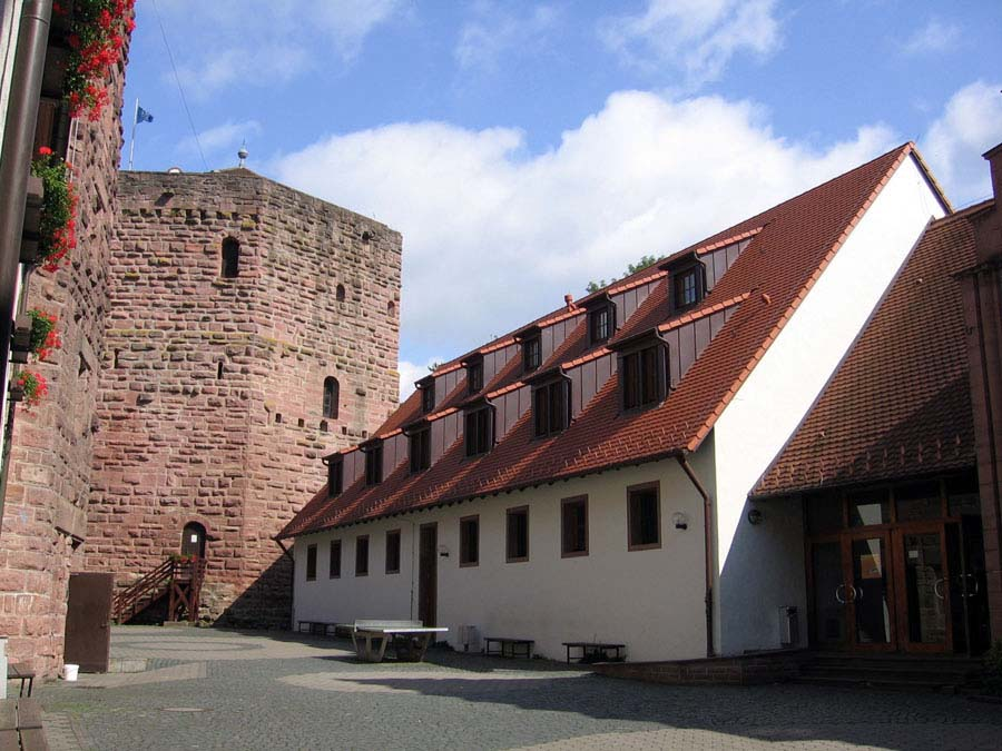 Photograph by Charles Nix